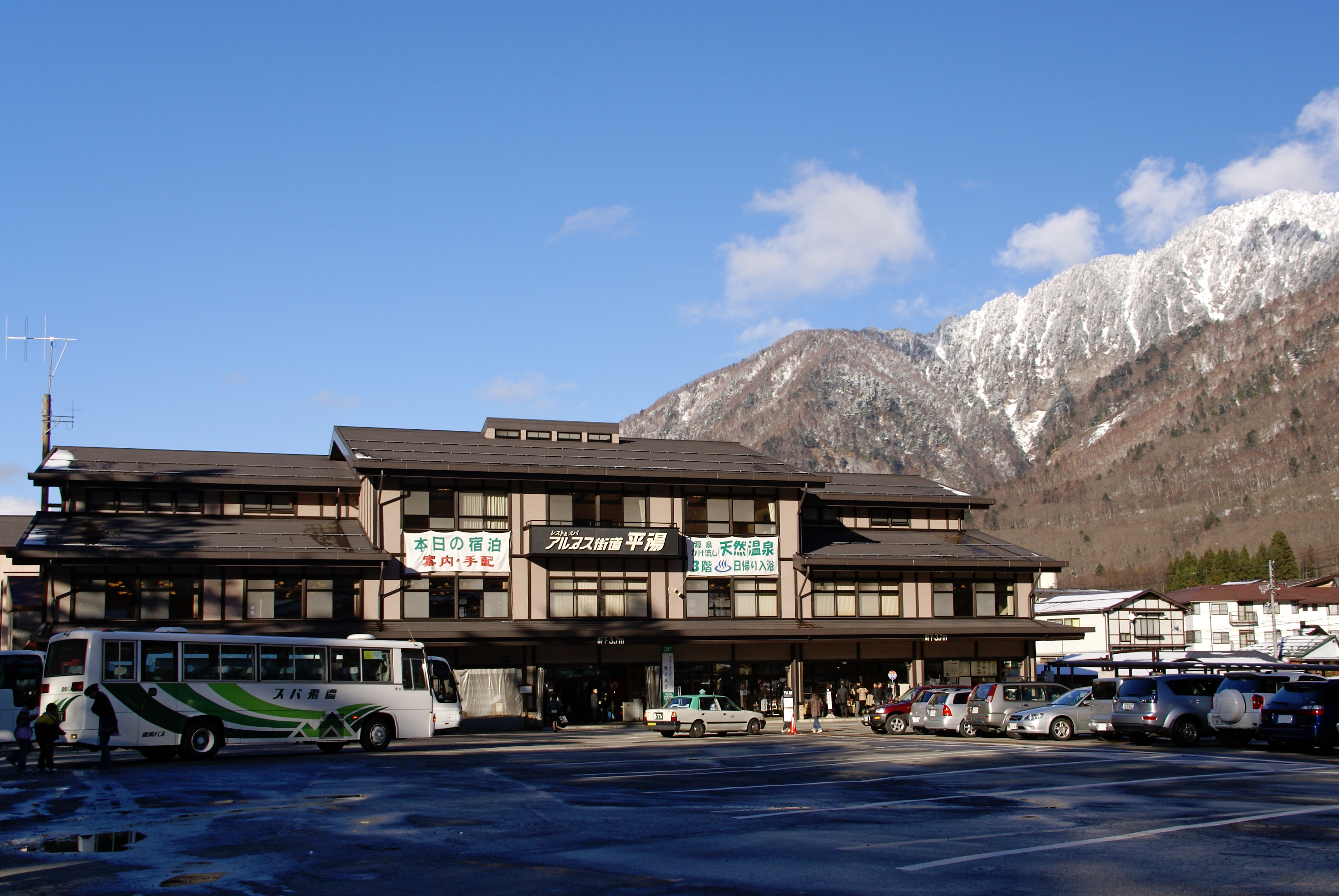 Hirayu Bus Terminus in Hirayu Onsen, Takayama, Gifu prefecture, Japan